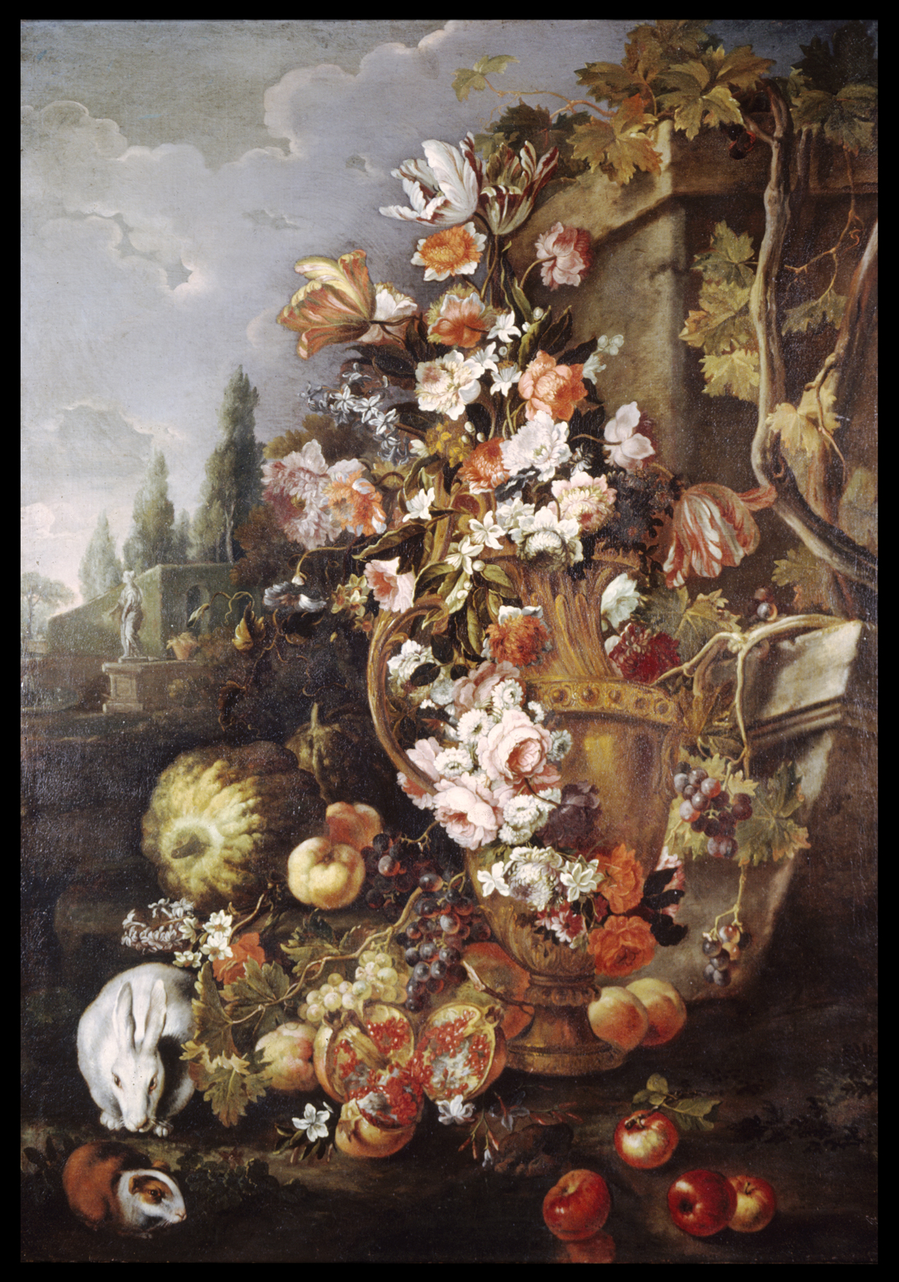 A deceptively casual cascade of sweet-smelling roses, tulips, and other cultivated flowers combined with luscious, ripe fruit including a melon, grapes, and a pomegranate sliced open is set before a classicizing urn in an aristocratic garden, accompanied by a rabbit and guinea pig. The owner of a palatial home in Rome or northern Europe around 1700 would appreciate this still life as a frank celebration of abundance, fertility, and the satisfaction of indulging the senses that would bring cheer to the walls even in the depths of January. Tamm worked for princely collectors in Rome and Vienna, where a similar composition was commissioned in 1707 by the prince of Liechtenstein for his palace there. Such large, decorative paintings were commonly hung in massed groupings like the present one. The dark, rich style owes much to Neapolitan still-life painters, whose work was popular in Rome. Indeed, this painting and its companion (Walters 37.1673) have also been attributed to the Neapolitan Nicola Malinconico (1663-1721).